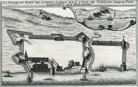 An anonymous Dutch rendering of the Spanish fortress of Kastella on Ternate in 1607, this image later reproduced by Chatelain in 1720.